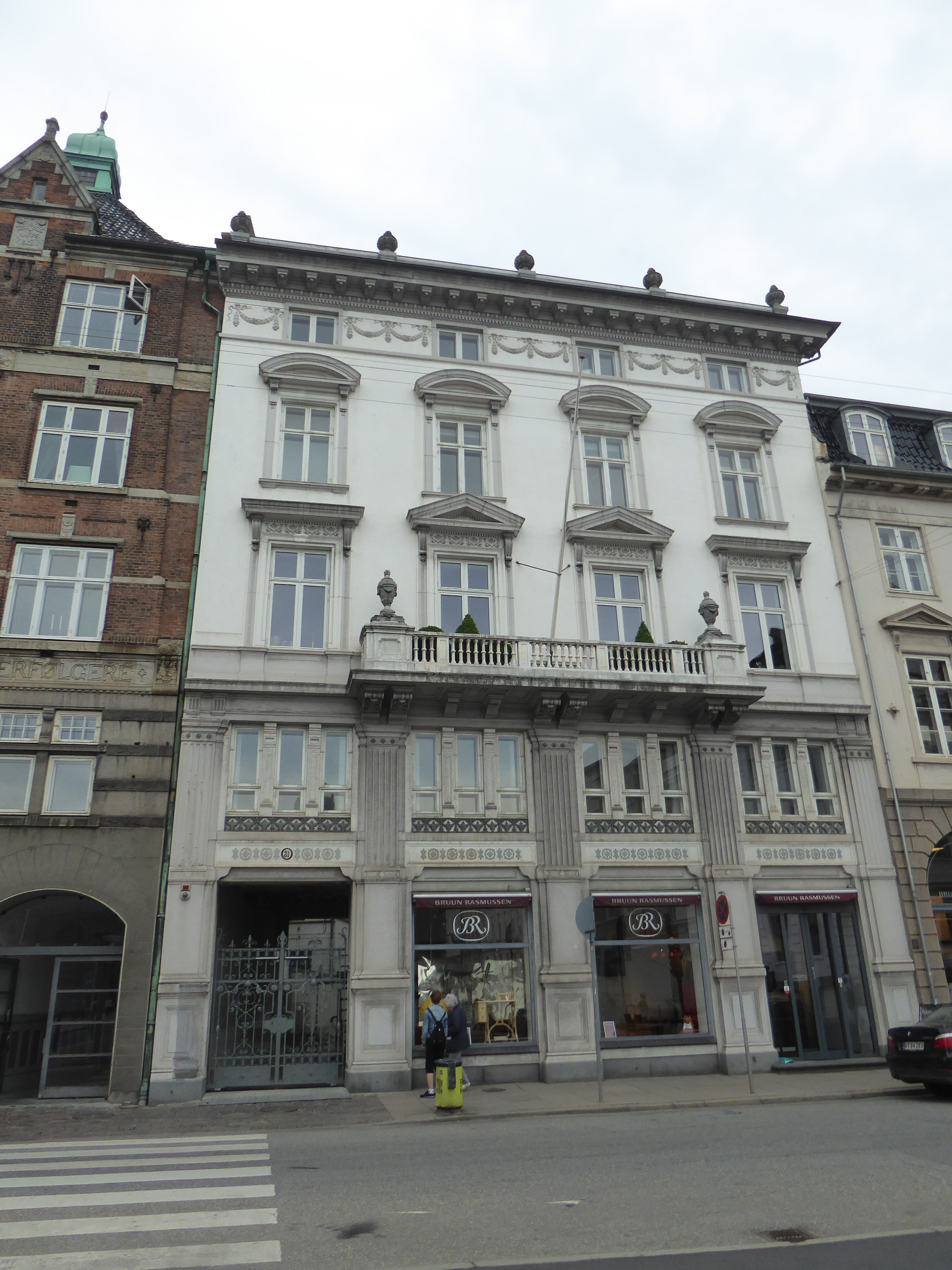 The head office of the auction company Bruuns Rasmussens Kunstauktioner at Bredgade in Indre By in Copenhagen.